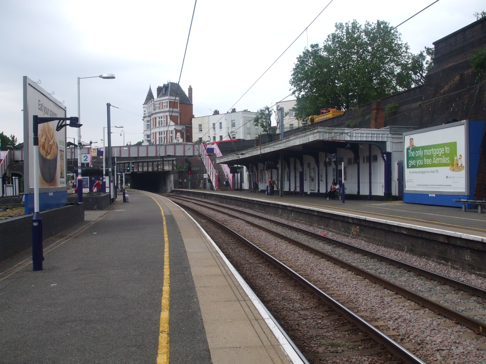 Thameslink platforms (slow) at Kentish Town station looking north